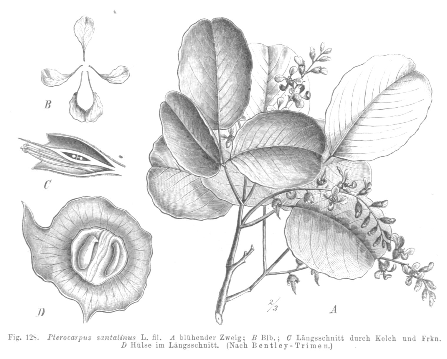 Illustration from book